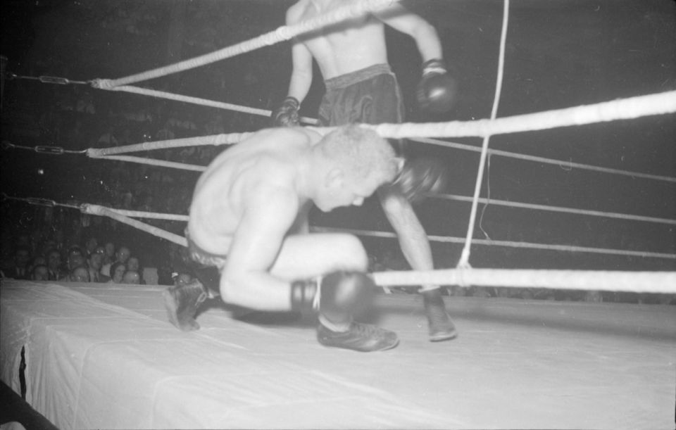 We see Barry boxer falling into the cables of the ring.